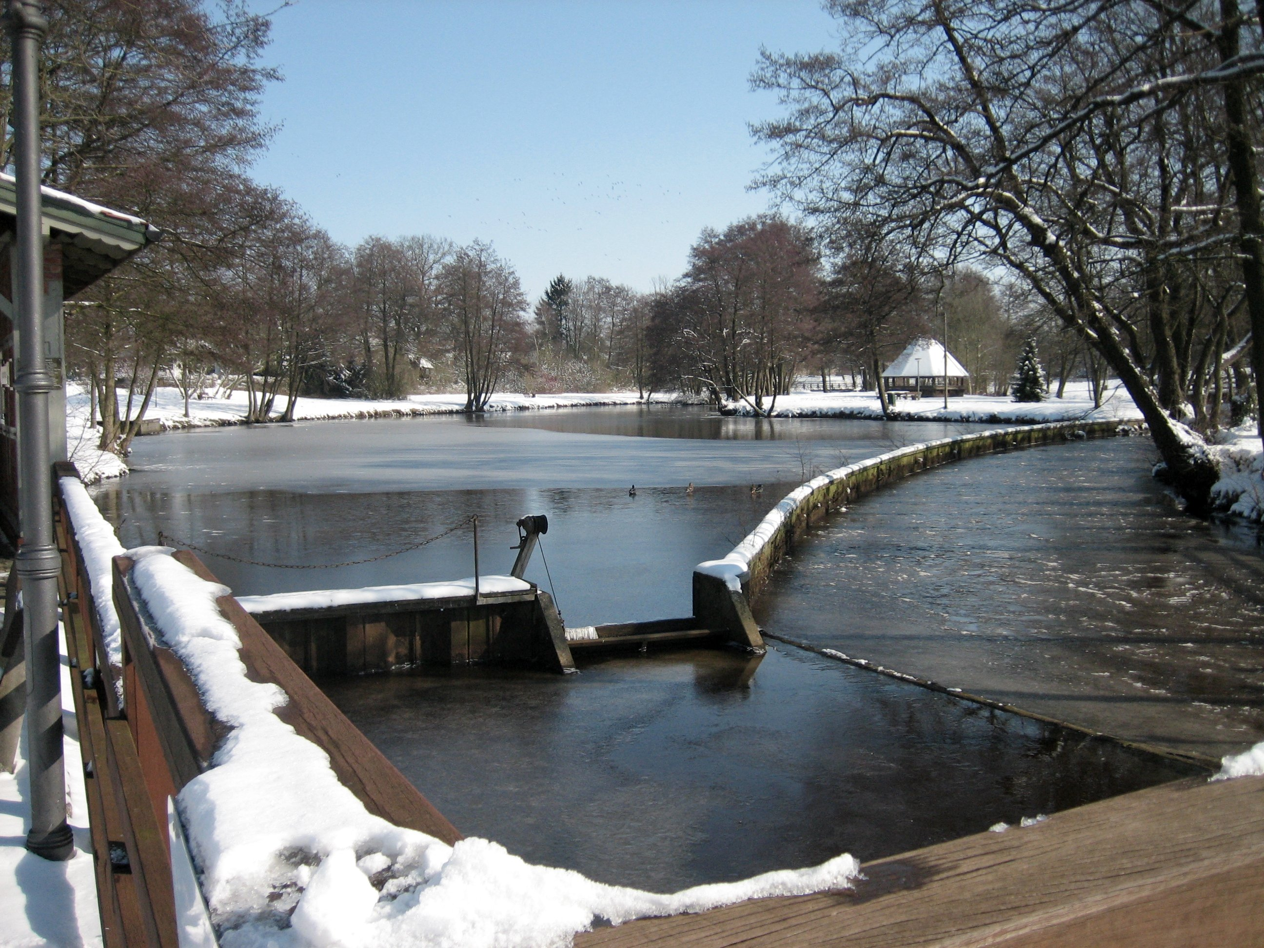 Lake inside Sittensen near the old water mill.